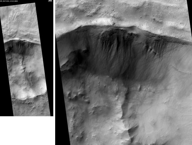 Jezza Crater wall, as seen by hirise. Location is 48.4 south and 322.1 east. gullies and dust devil tracks visible. Scale bar is 500 meters long. Image was taken by the Mars Reconnaissance Orbiter's HiRISE. The HiRISE camera was built by Ball Aerospace and Technology Corporation and is operated by the University of Arizona. Image courtesy NASA/JPL/University of Arizona.